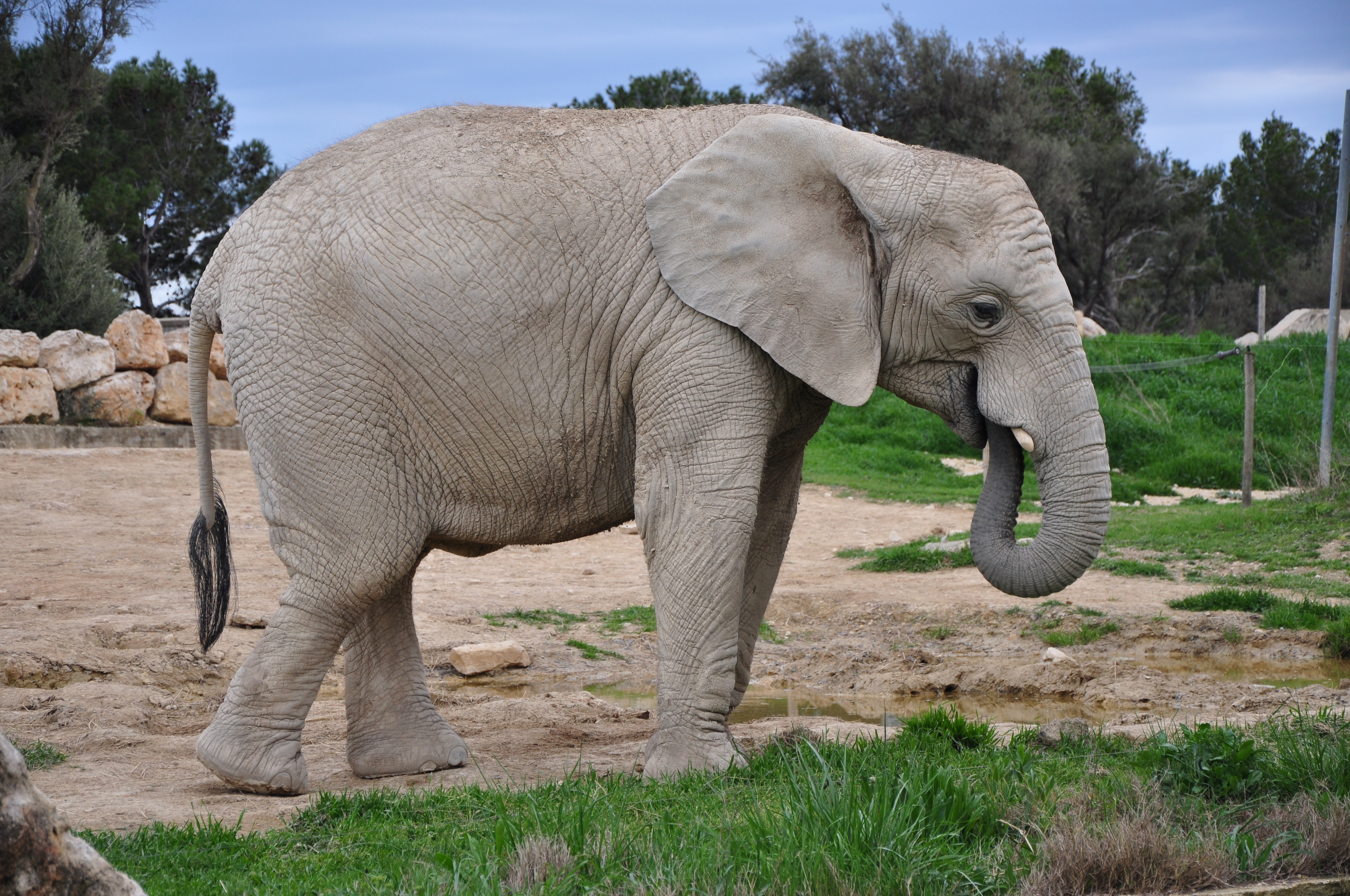 Elephant at Sigean